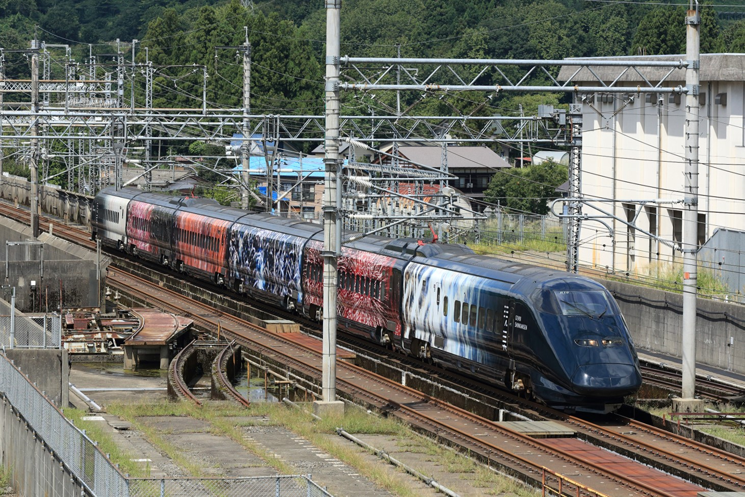 JR East E3-700 series "Genbi Shinkansen" set R19 on a southbound Joetsu Shinkansen service